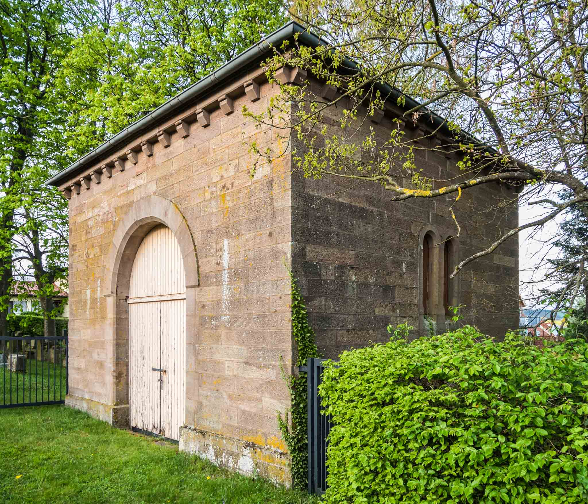 Winnweiler Judenfriedhof c